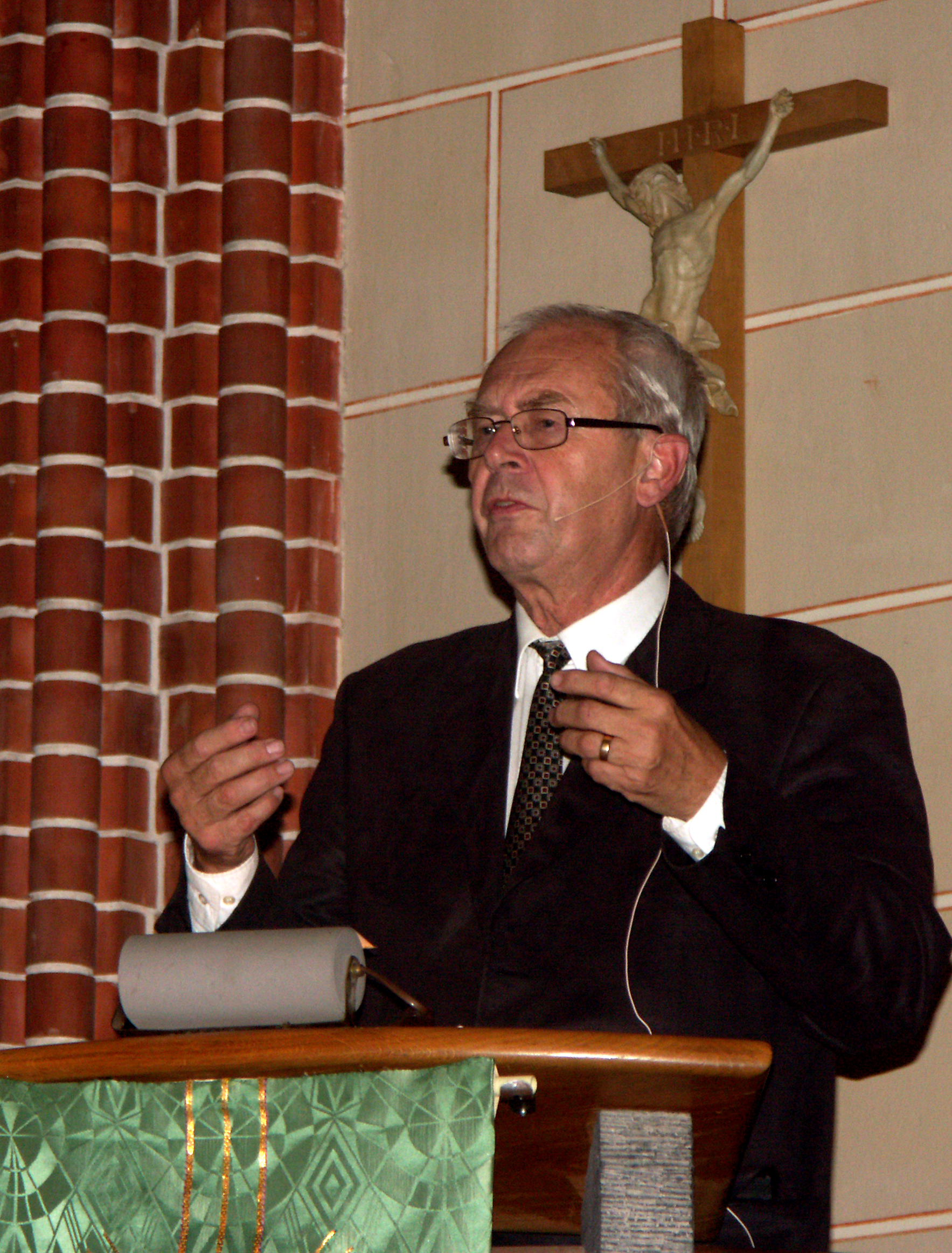 Agne Nordlander, Swedish theologian and author.